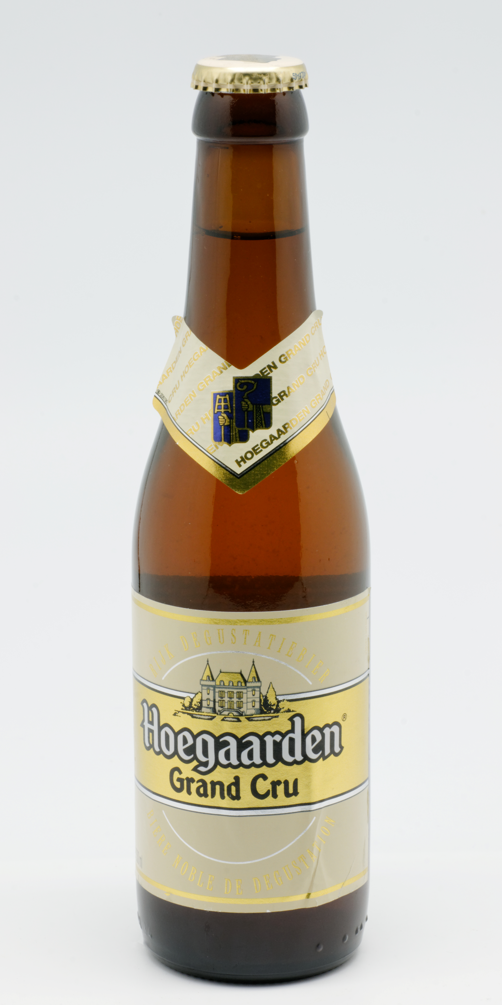 A bottle of Hoegaarden Grand Cru.